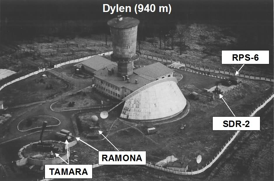 Dyleň